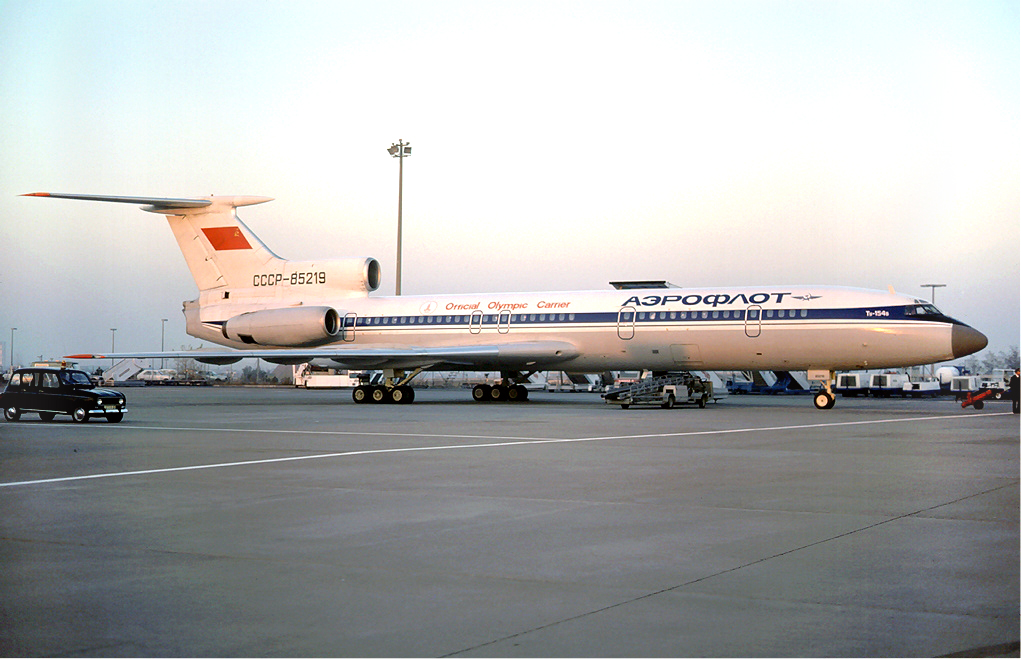 A Tupolev Tu-154B of Aeroflot at Basle/Mulhouse Airport